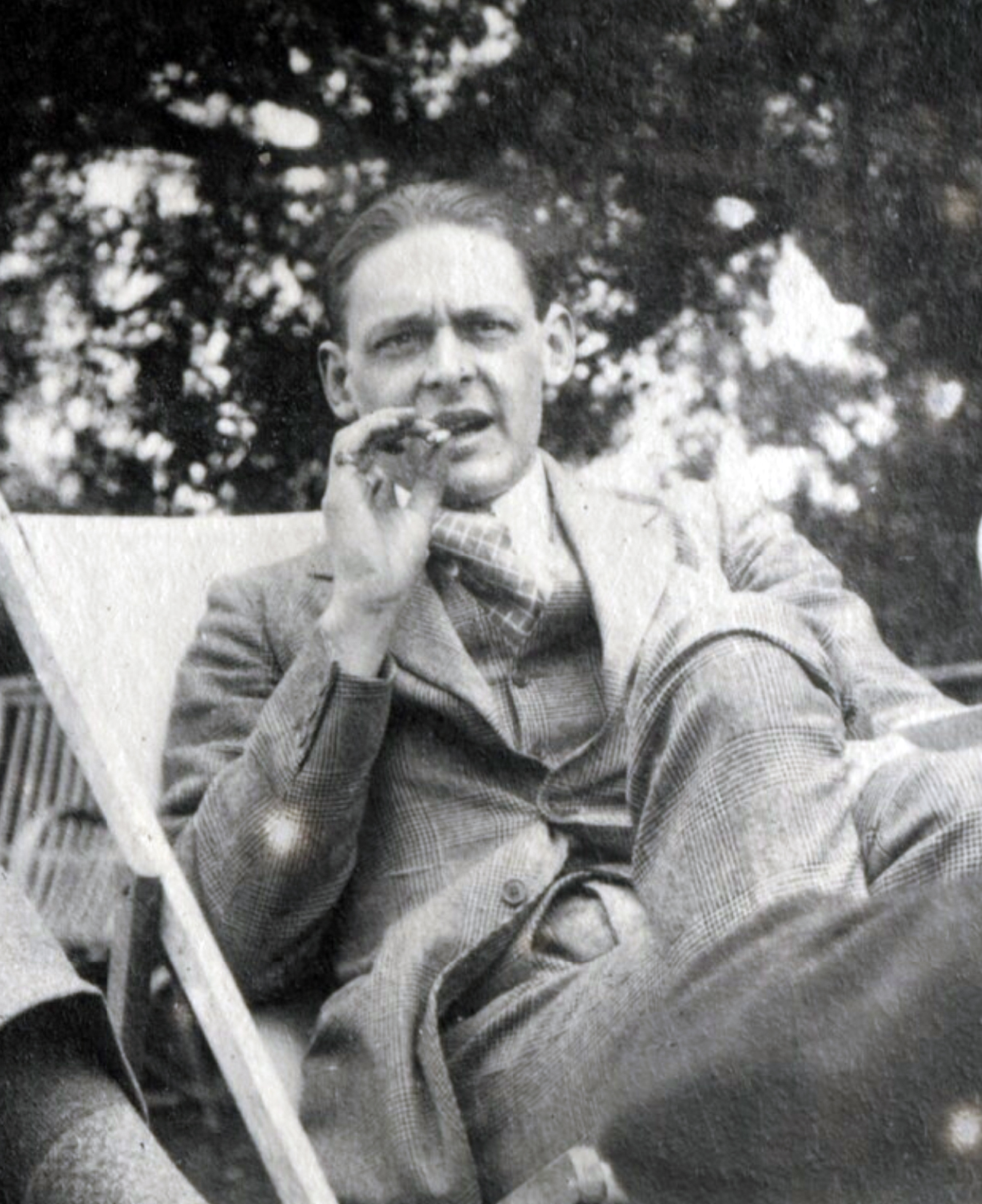 T. S. Eliot, photographed one Sunday afternoon in 1923 by Lady Ottoline Morrell